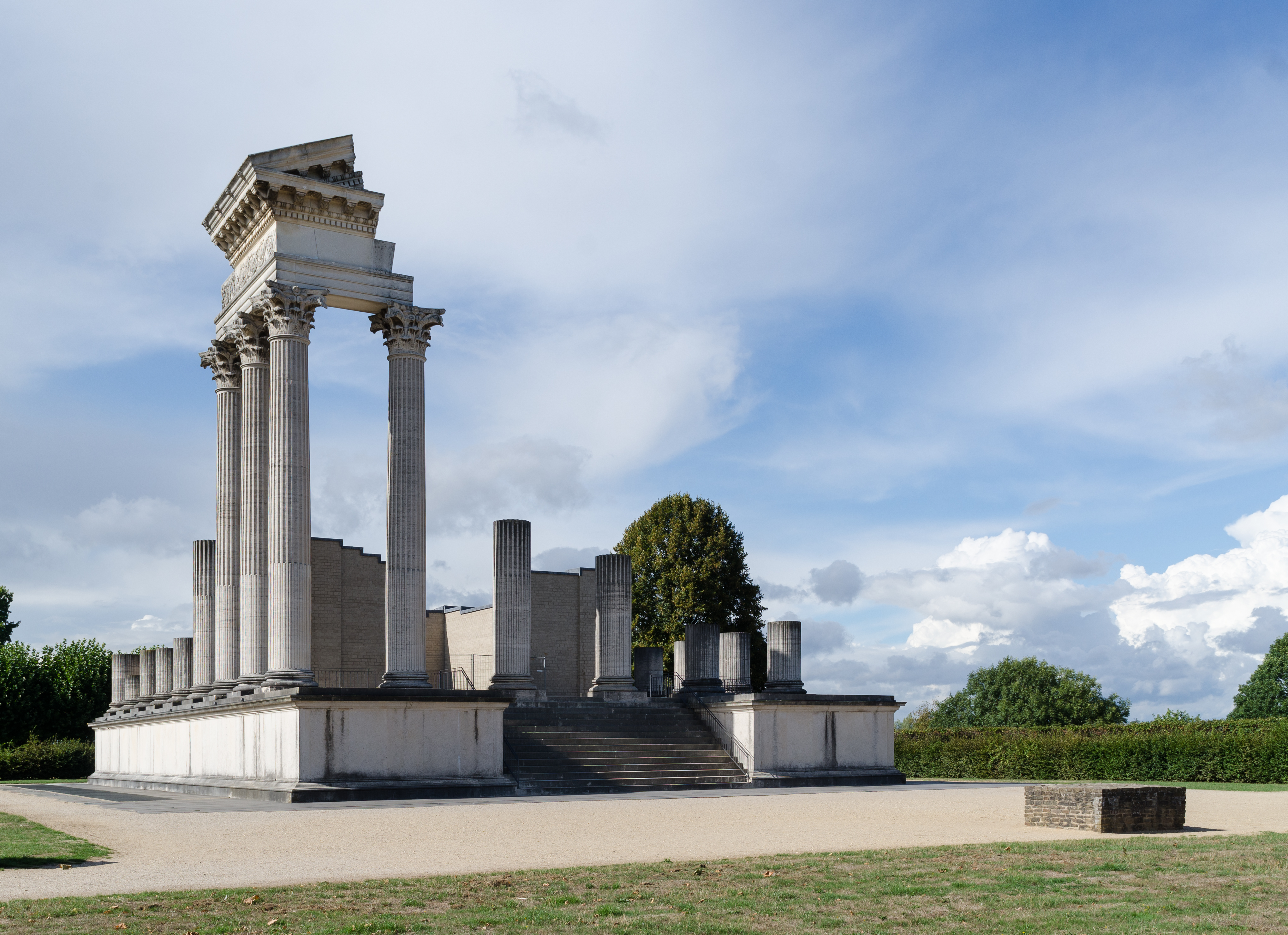 Xanten (North Rhine-Westphalia, Germany) – Archaeological Park – reconstructed harbour temple of the ancient Roman settlement Colonia Ulpia Traiana